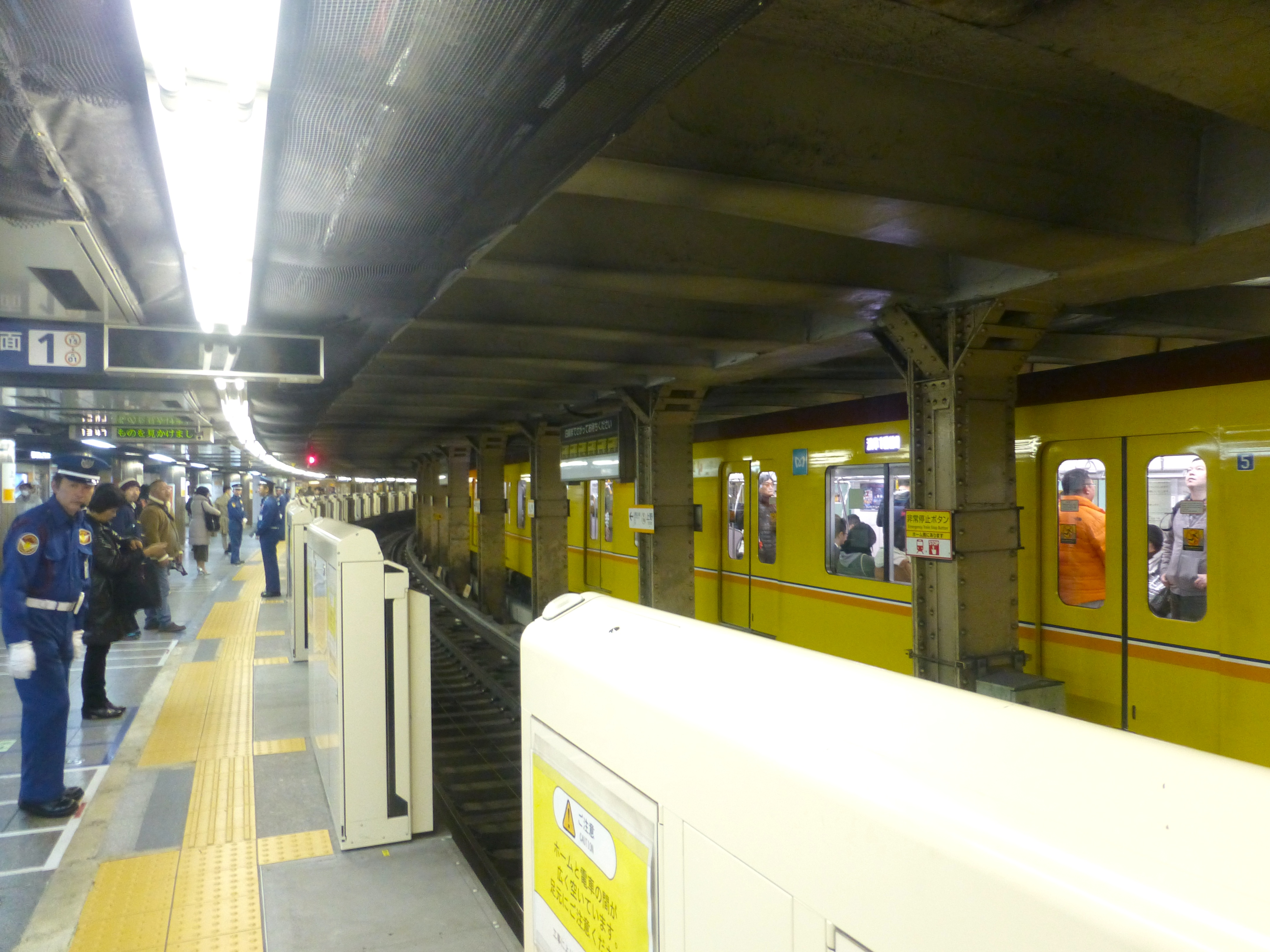 The Tokyo Metro Ginza Line platforms at Ueno Station in Tokyo, with chest-height platform edge doors installed but not yet in operation